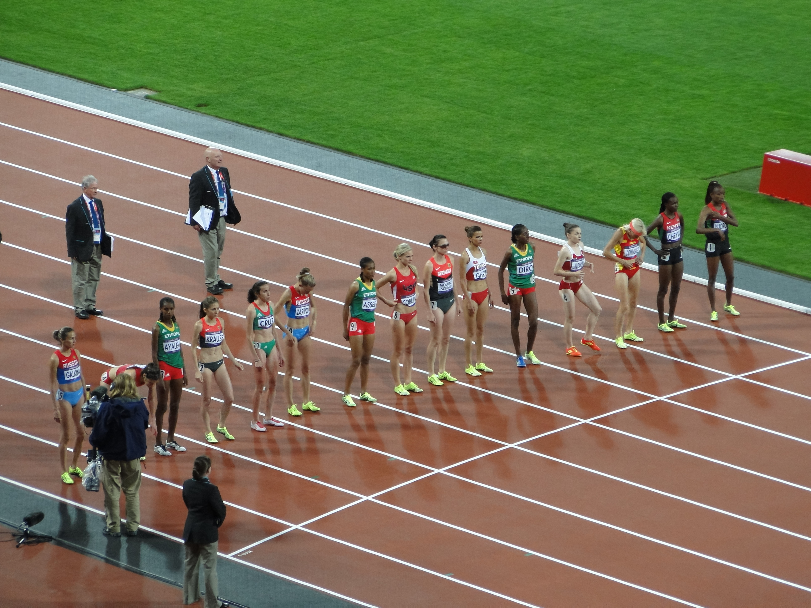 Lining up for the start of the women's 3000m steeplechase at the 2012 London Olympics, Gulnara Galkina, Bridget Franek, Hiwot Ayalew, Gesa Felicitas Krause, Clarisse Cruz, Yuliya Zaripova, Sofia Assefa, Emma Coburn, Antje Möldner-Schmidt, Habiba Ghribi, Etenesh Diro, Polina Jelizarova, Marta Dominguez, Milcah Chemos Cheywa, Mercy Wanjiku Njoroge